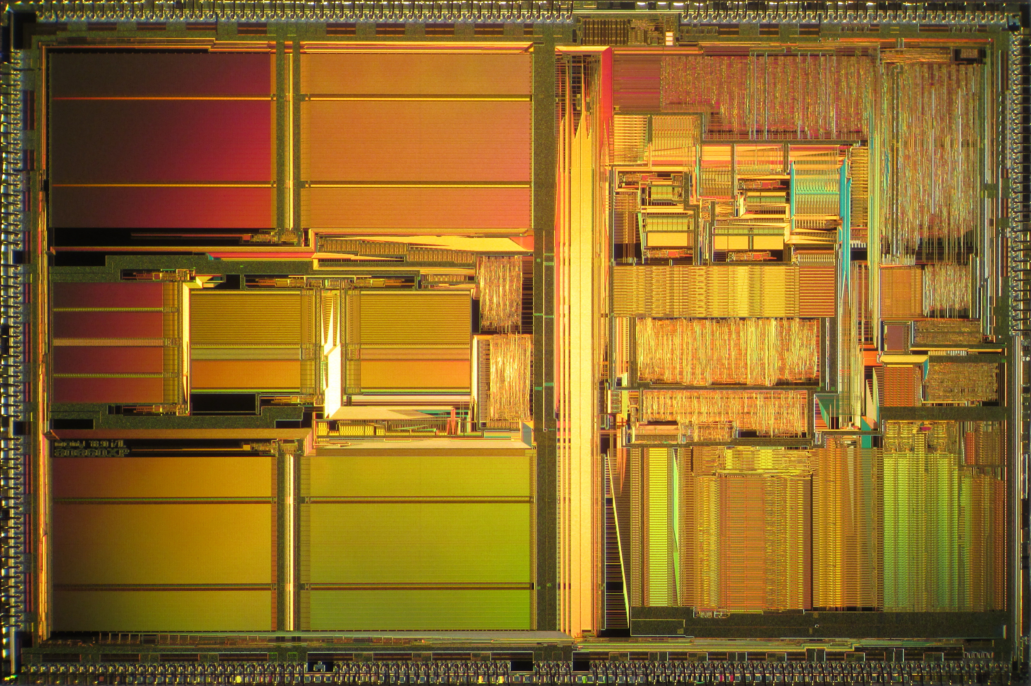 Die shot of Intel 80860XP microprocessor (A80860XP-50, SX657).